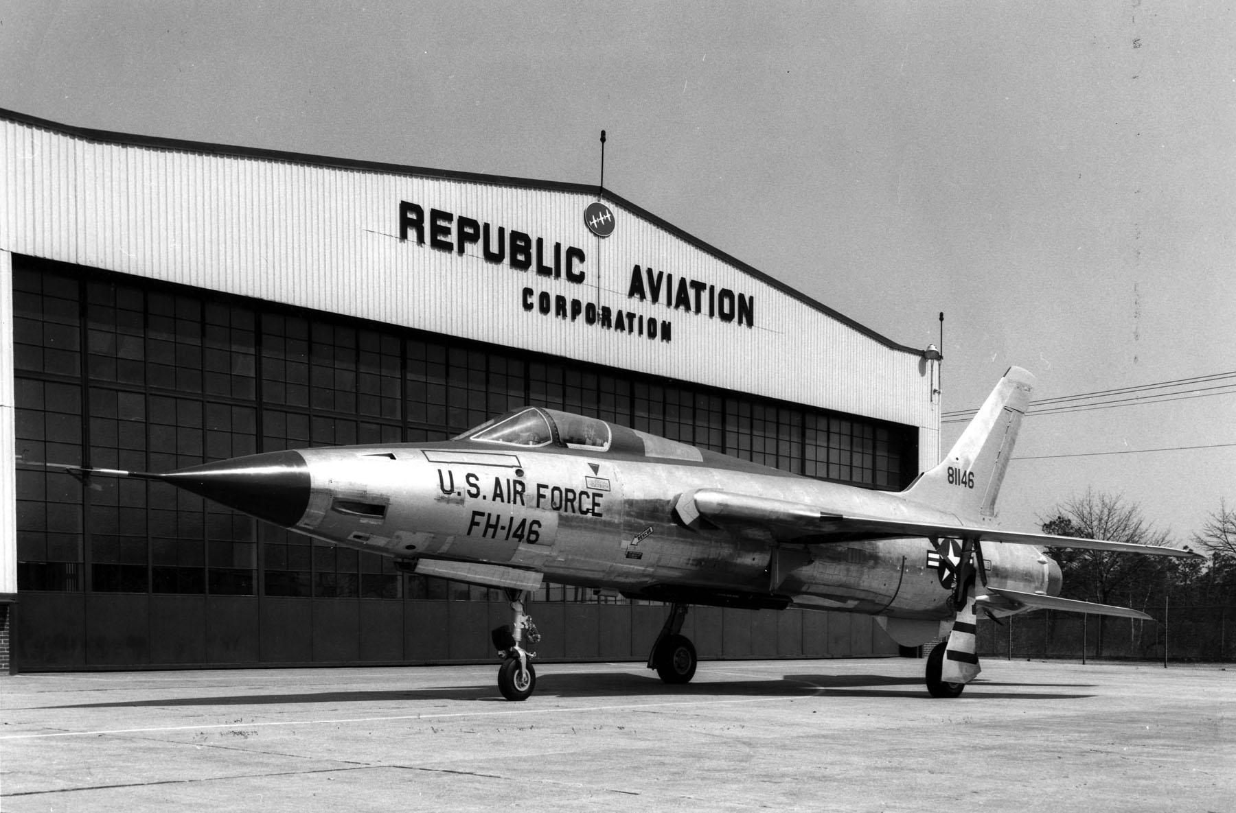 An U.S. Air Force Republic F-105D-1-RE Thunderchief (s/n 58-1146). This aircraft was the the first -D model built and made its first flight on 9 June 1959.